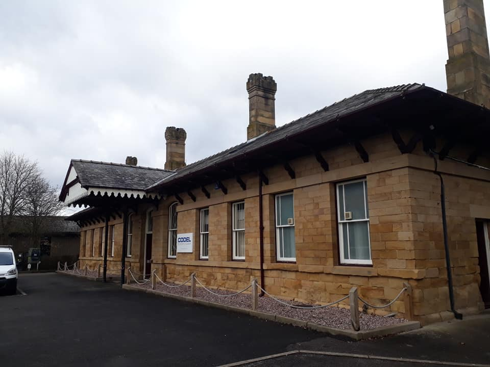 Bakewell railway station is now an office and the trackbed is part of the Monsal Trail. My own photo, for proof of ownership.